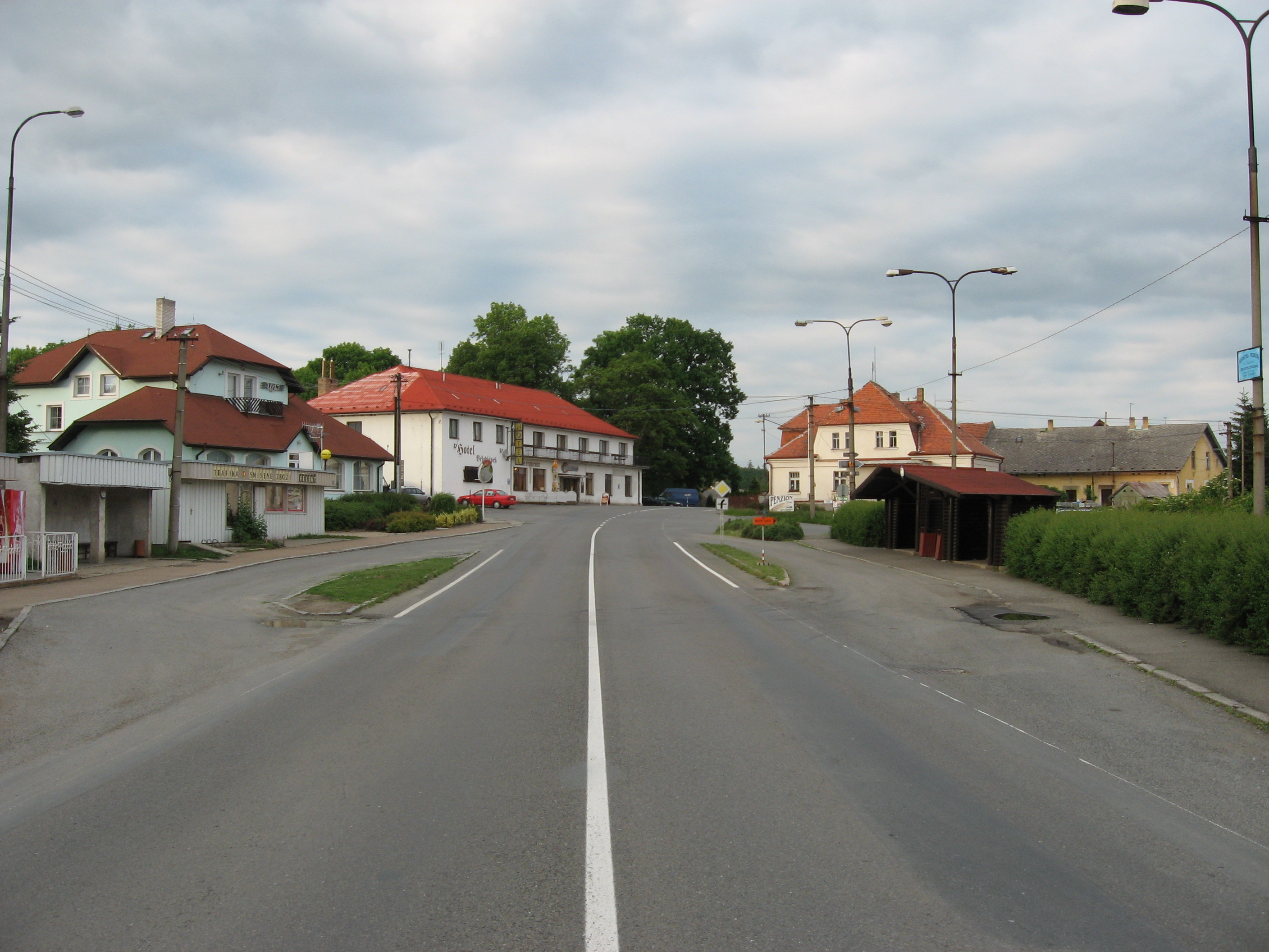 Village square, Holoubkov, Pilsener province, CZ